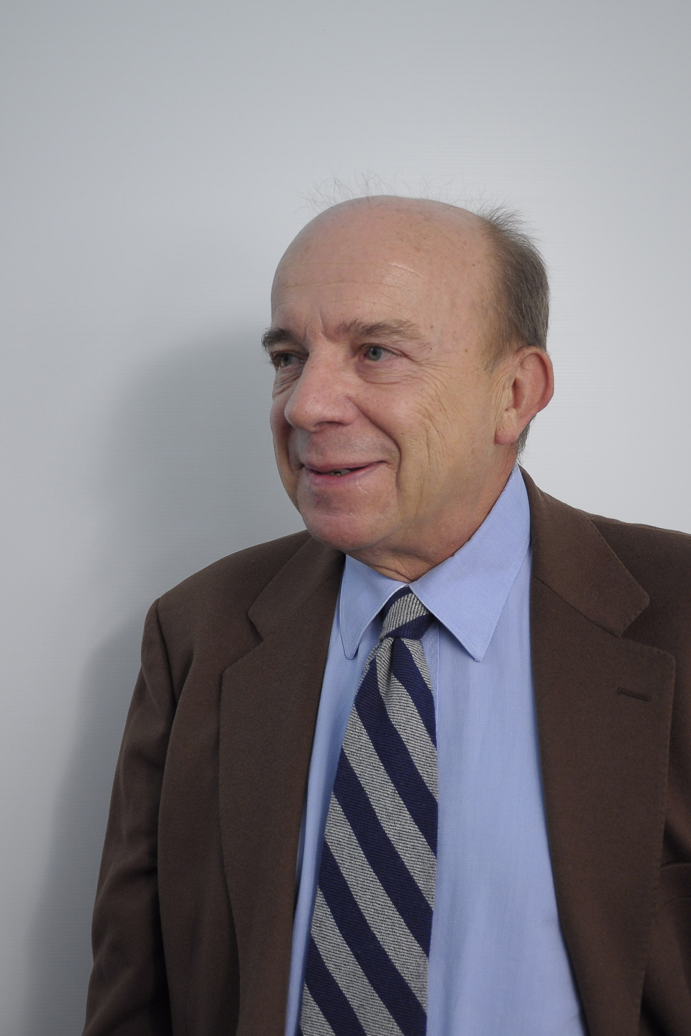 Italian judge Gustavo Zagrebelsky. This picture was taken in Genoa, Italy, at the 2011 Festival della Scienza.